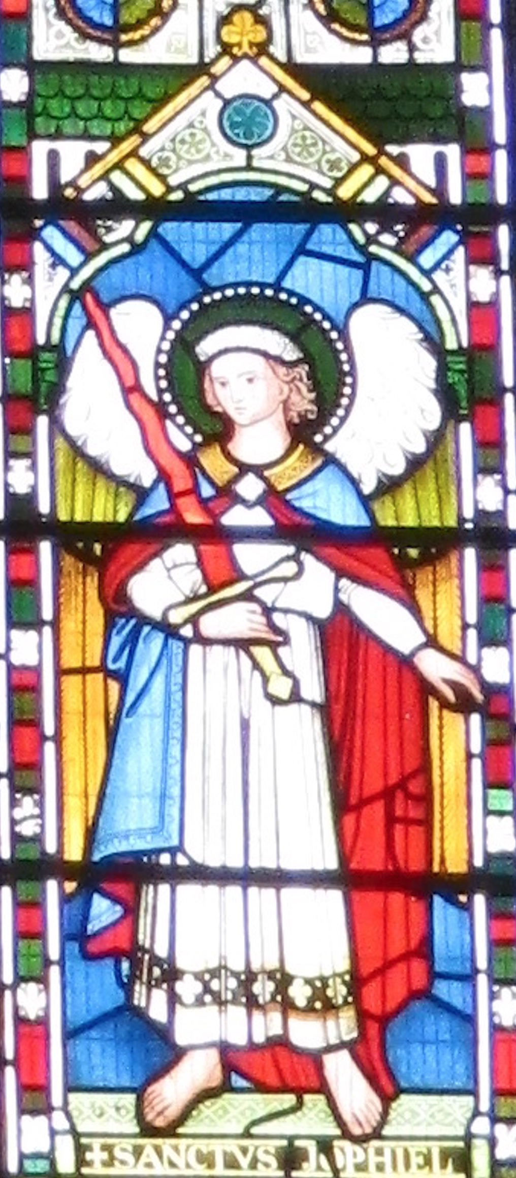 Saint Jophiel the Archangel, stained glass made in 1862 at St Michael and All Angels Church, Brighton, East Sussex, England.